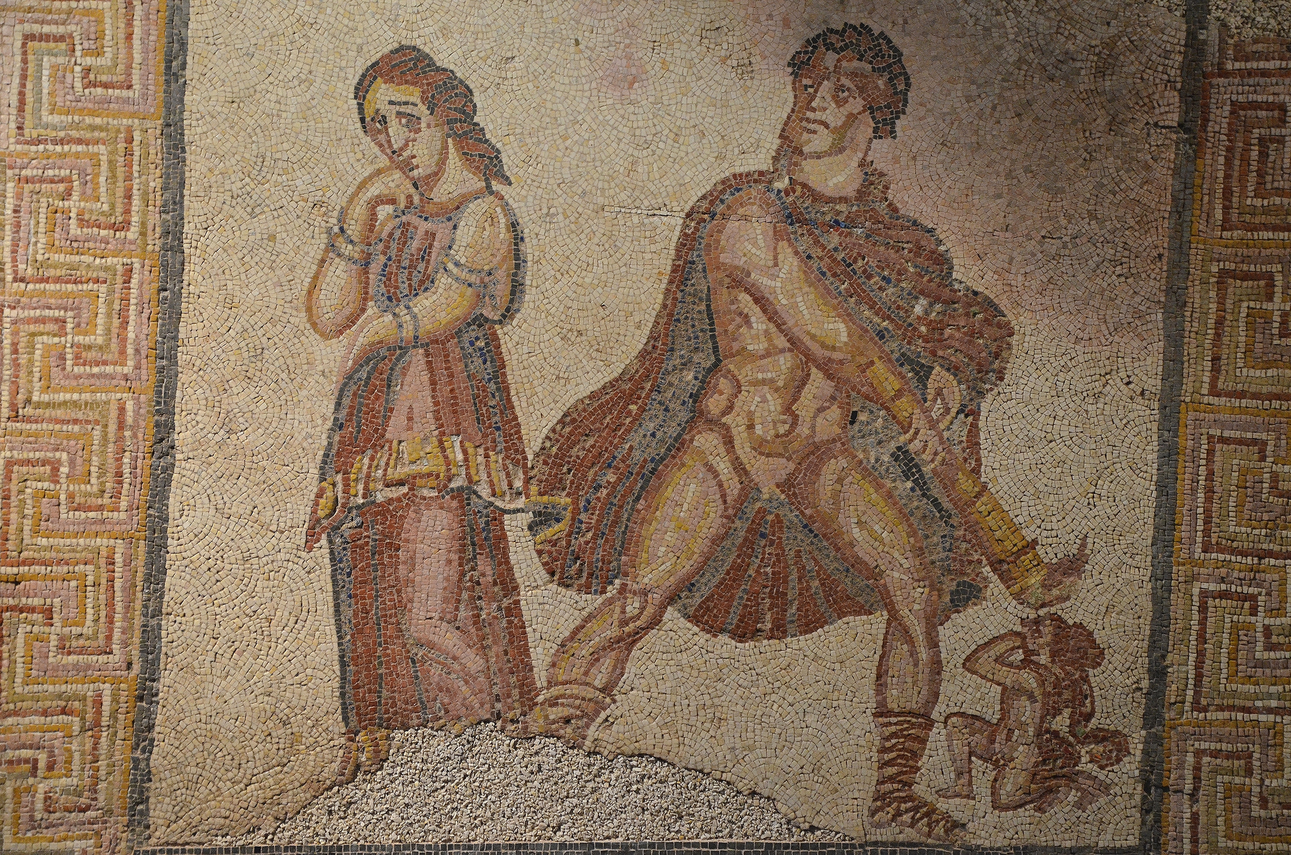 When Hercules grew up and had become a great warrior, he married Megara. They had two children. Hercules and Megara were very happy, but life didn't turn out for them the way it does in the movie. Hera sent a fit of madness to Hercules that put him into so great a rage, he murdered Megara and the children. When Hercules regained his senses and saw the horrible thing that he had done, he asked the god Apollo to rid him of this pollution. Apollo commanded the hero to do certain tasks as a punishment for his wrongs, so that the evil might be cleansed from his spirit.